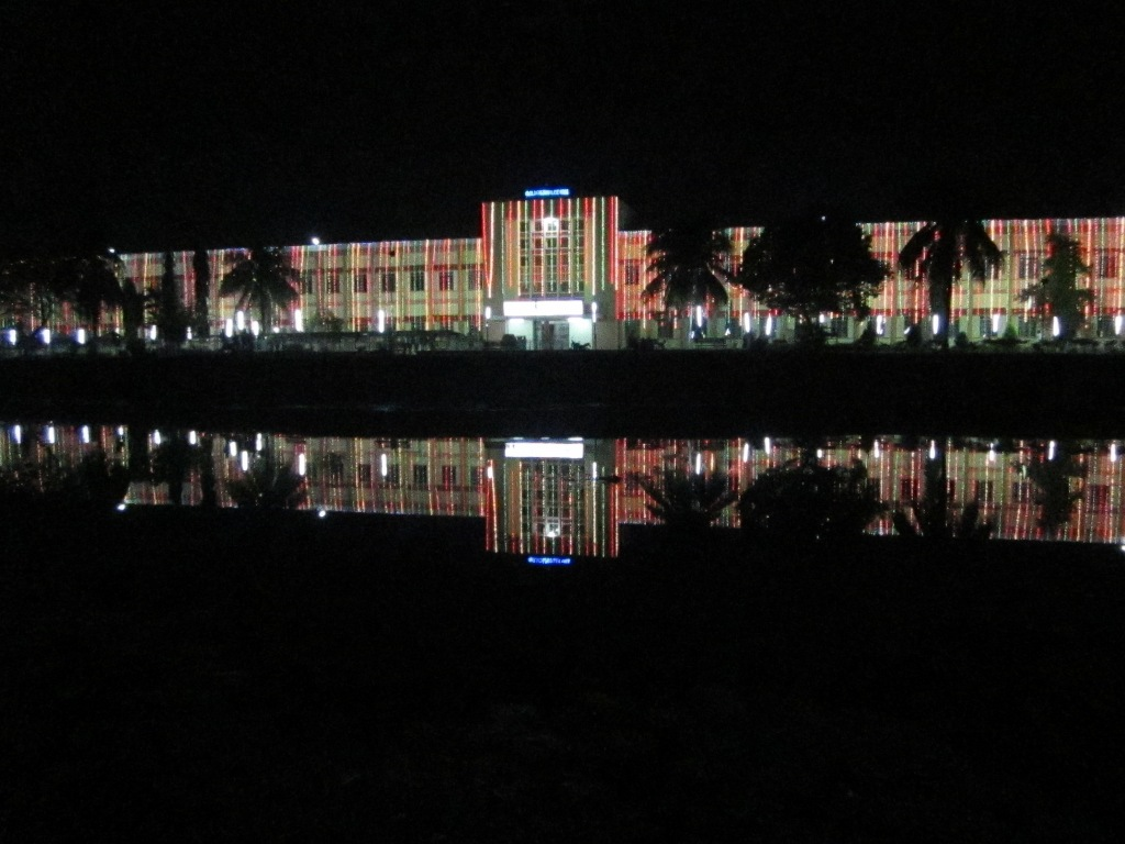 Golden Jubilee Night. photo by- Bishnu M Basumatary